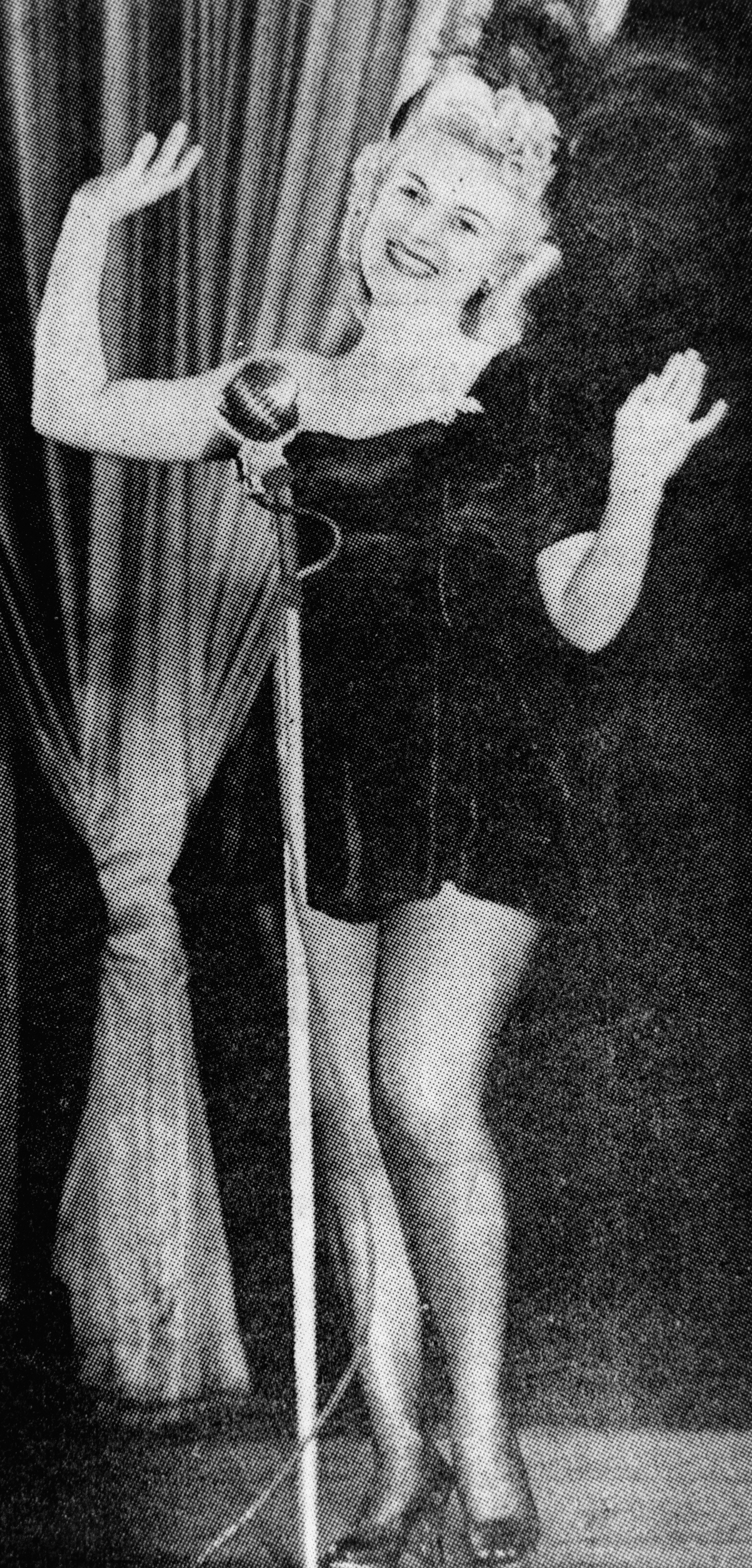 Gloria Dawn (26 February 1929 – 2 April 1978) was an Australian actress of film and stage, singer and vaudevillian performer